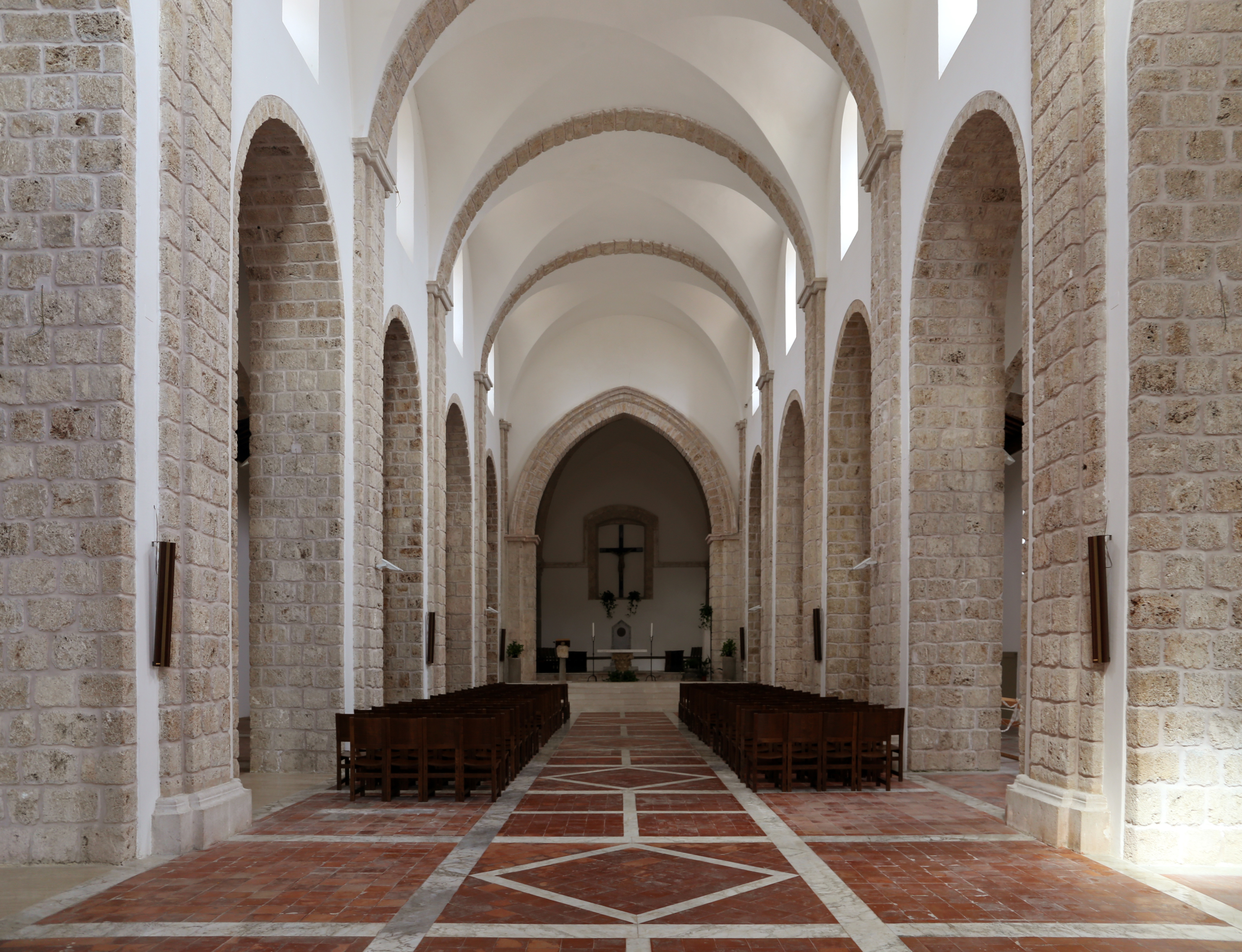 San Vincenzo al Volturno